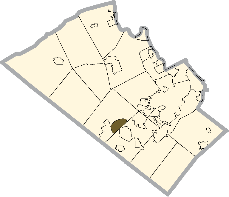 Trexlertown shaded on the map of Lehigh County.